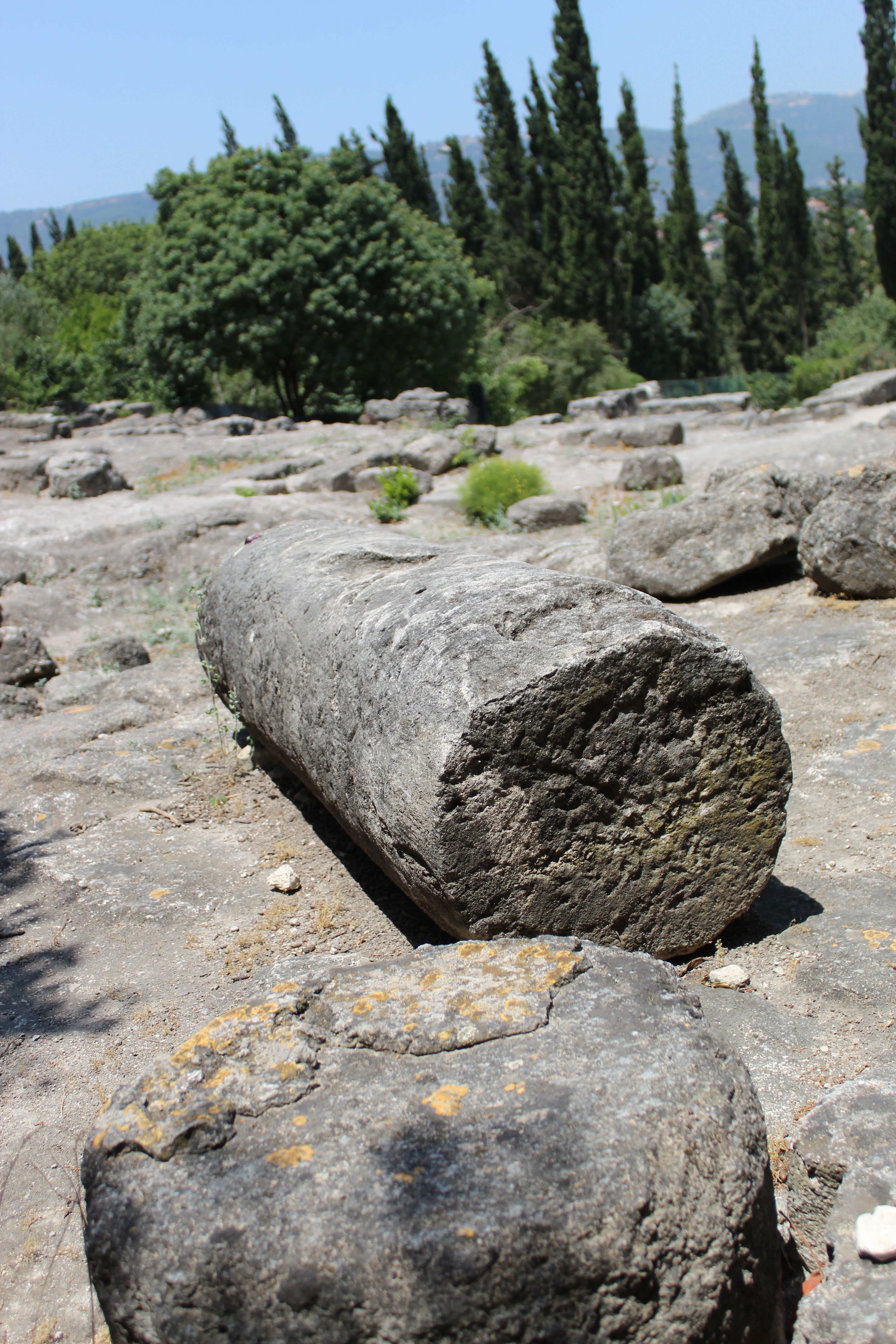 Beit Shearim ruin in Lower Galilee